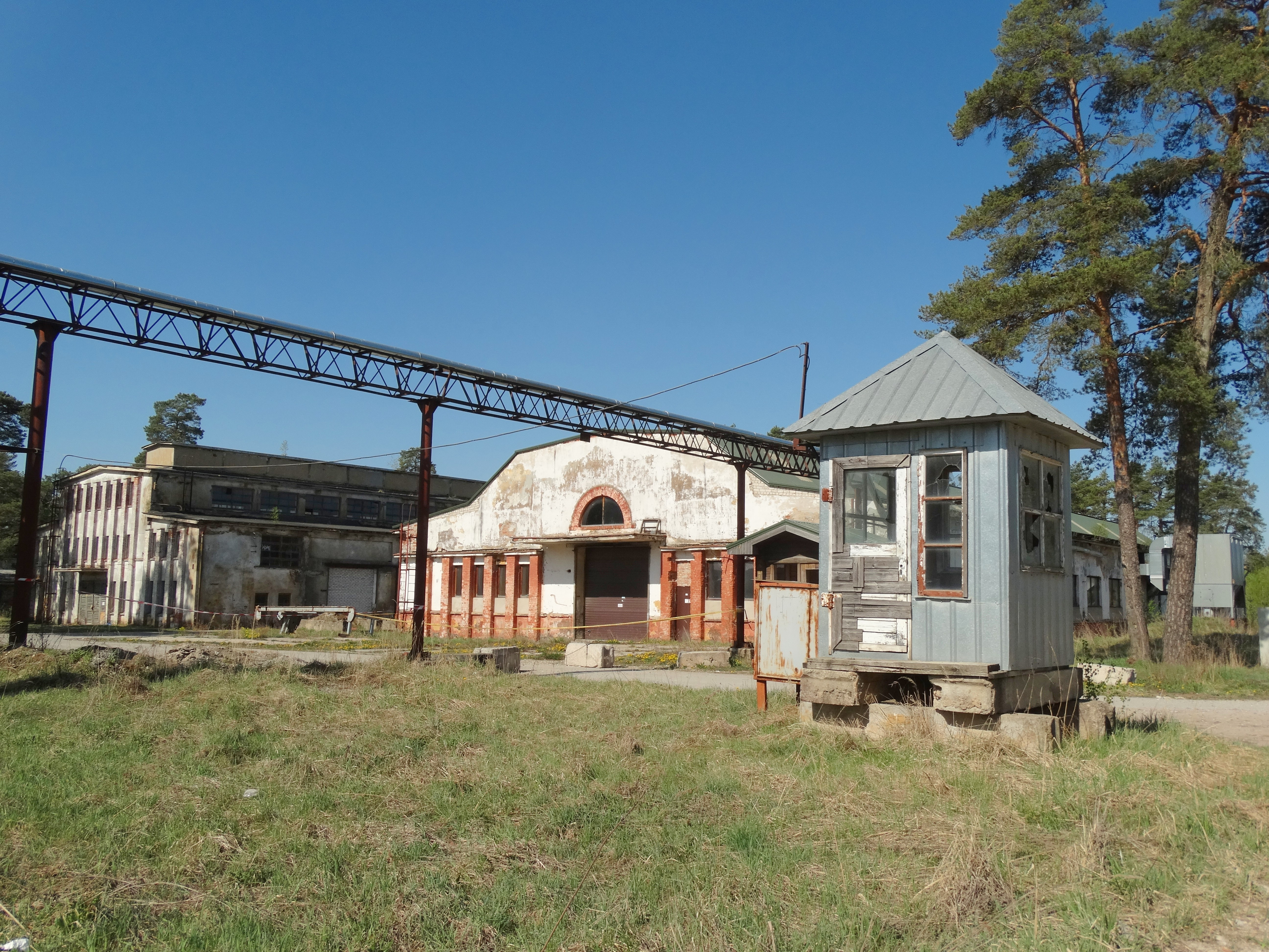 Linkaičiai (Radviliškis), Lithuania